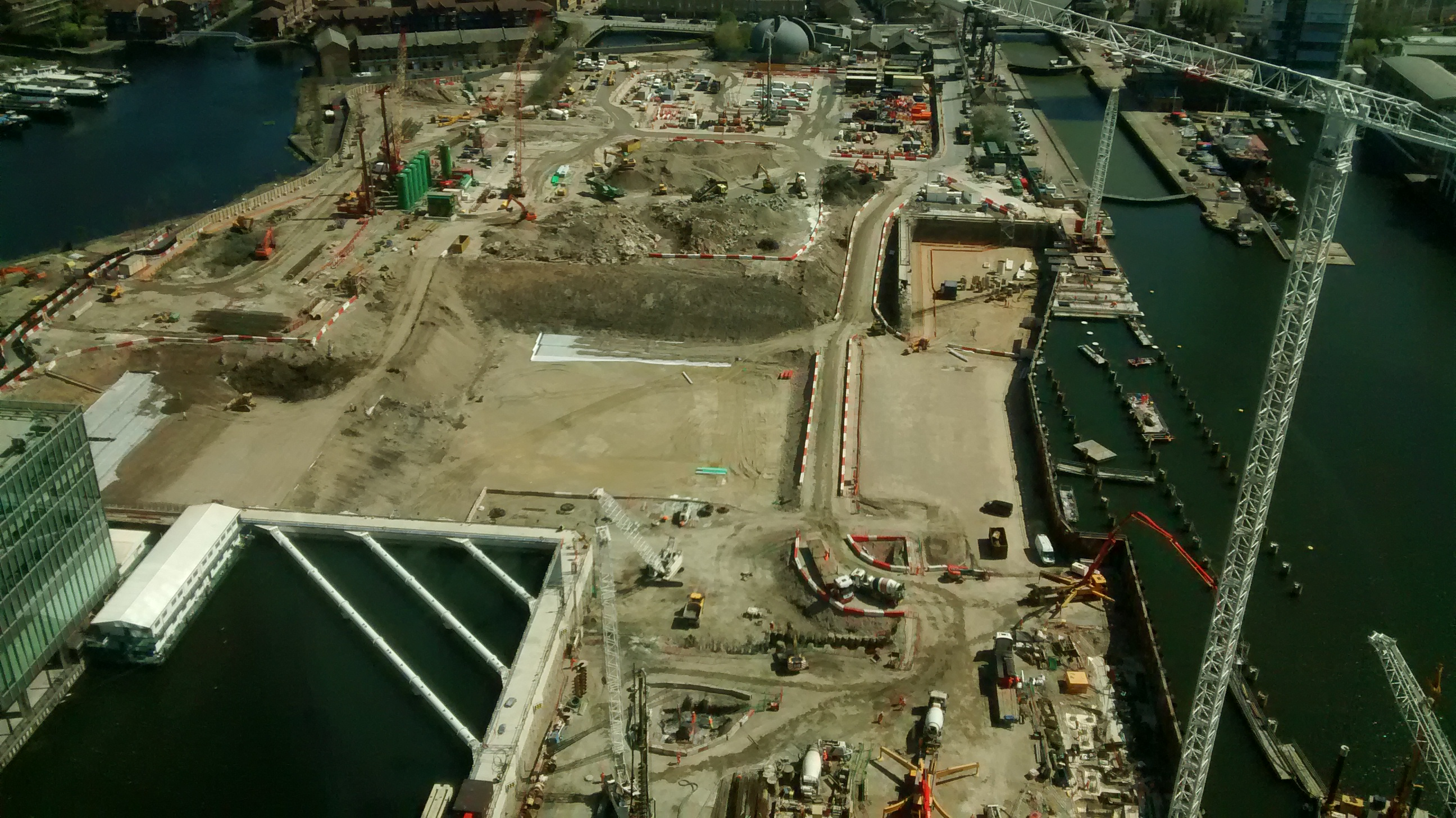 Wood Wharf under construction on 20 April 2016, as seen from Canary Wharf.